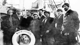 Crew from the Aurora (Ross Sea Party in a Shackleton expedition)